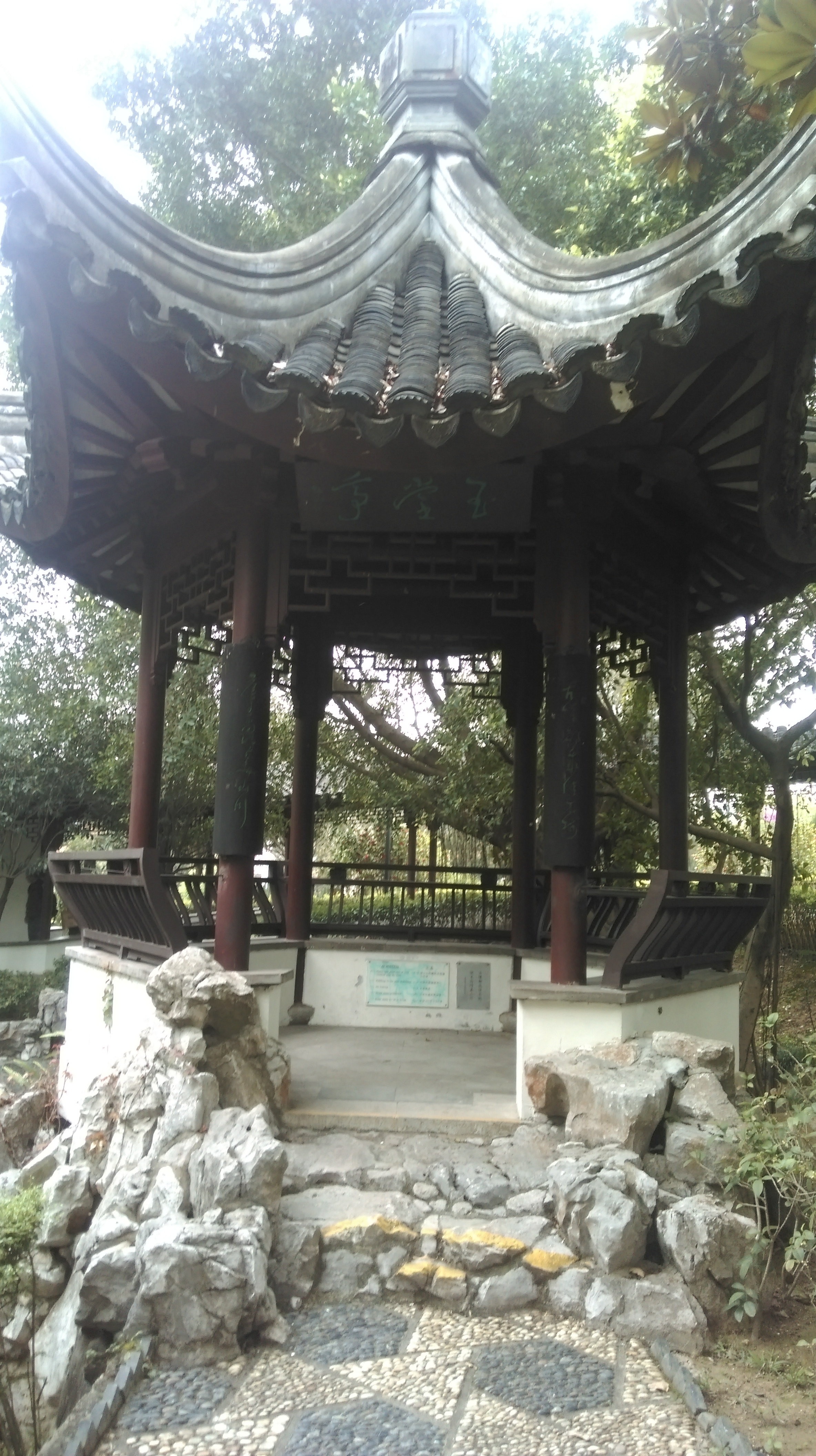 Yuk Tong Pavilion in Kowloon Walled City Park